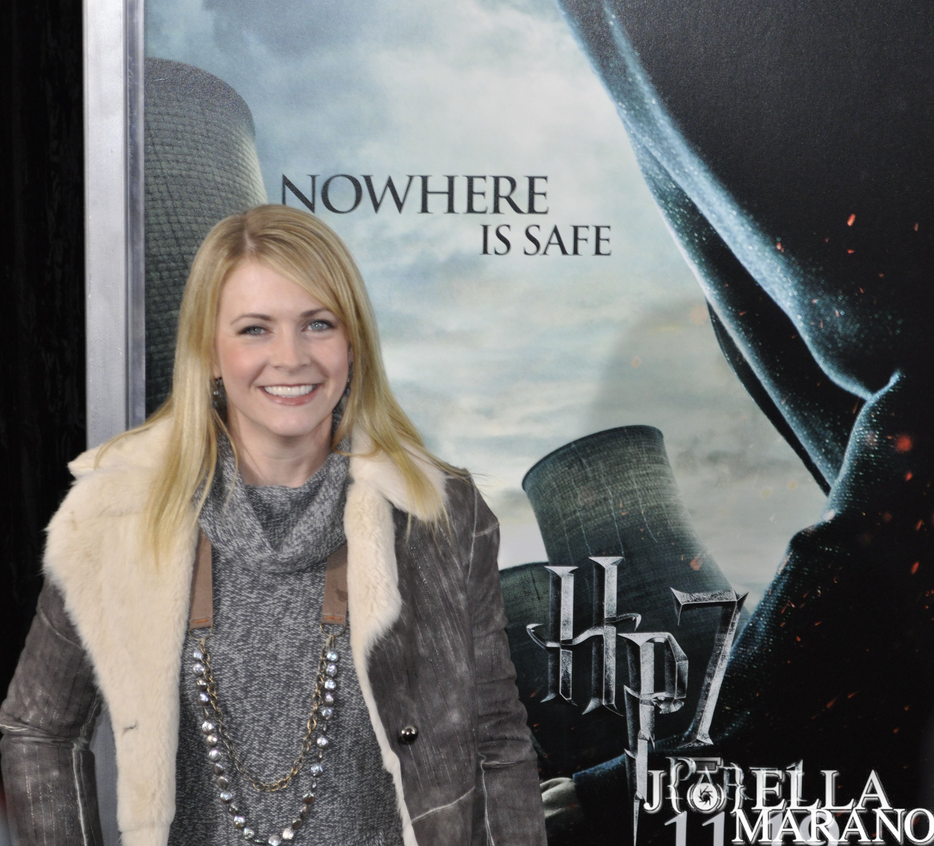 Harry Potter and The Deathly Hallows Premiere Alice Tully Center- NYC November 15th 2010